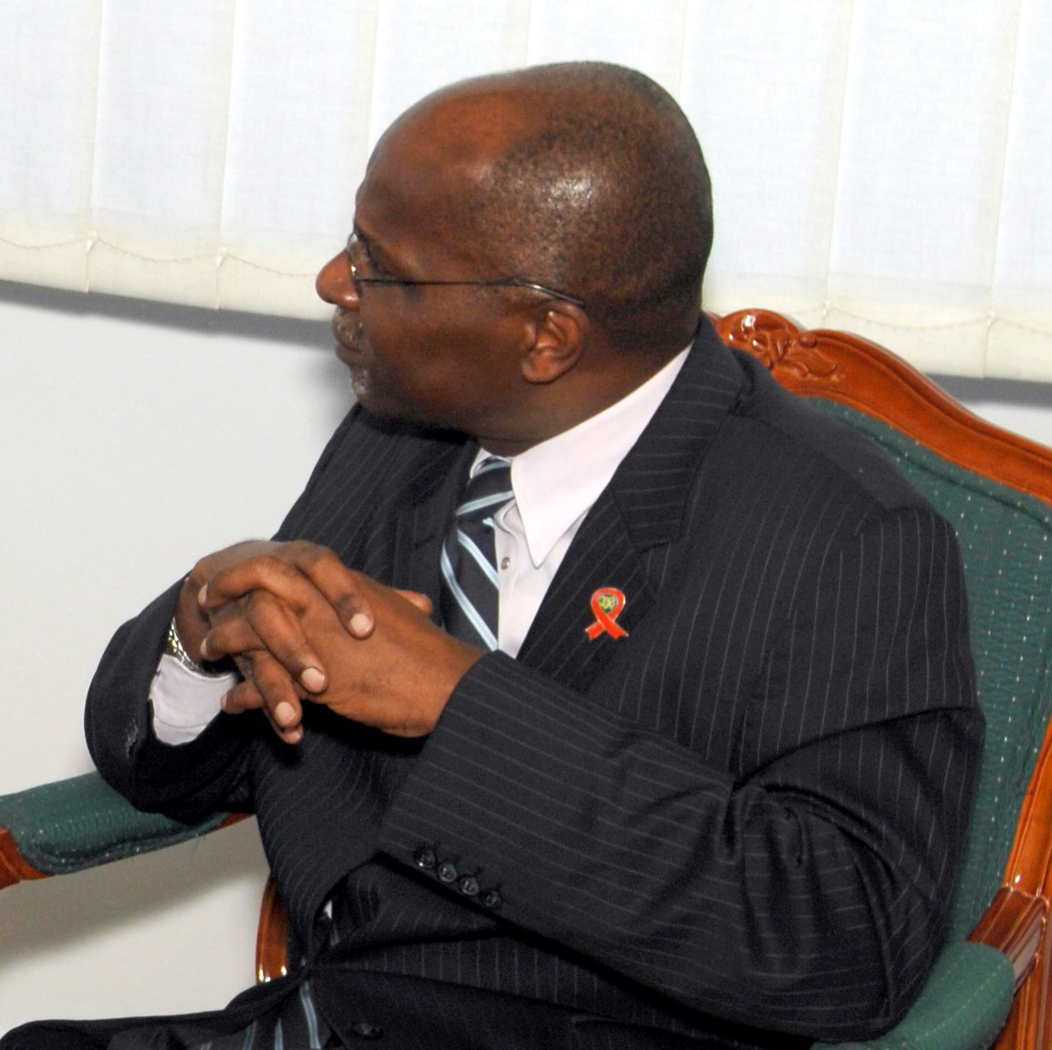 Dr. Tomaz A. Salomao, the executive secretary for the Southern African Development Community (SADC), in Gaborone, Botswana, Dec. 3, 2007. During a visit of U.S. Army Gen. William Ward, commander of Africa Command (AFRICOM)